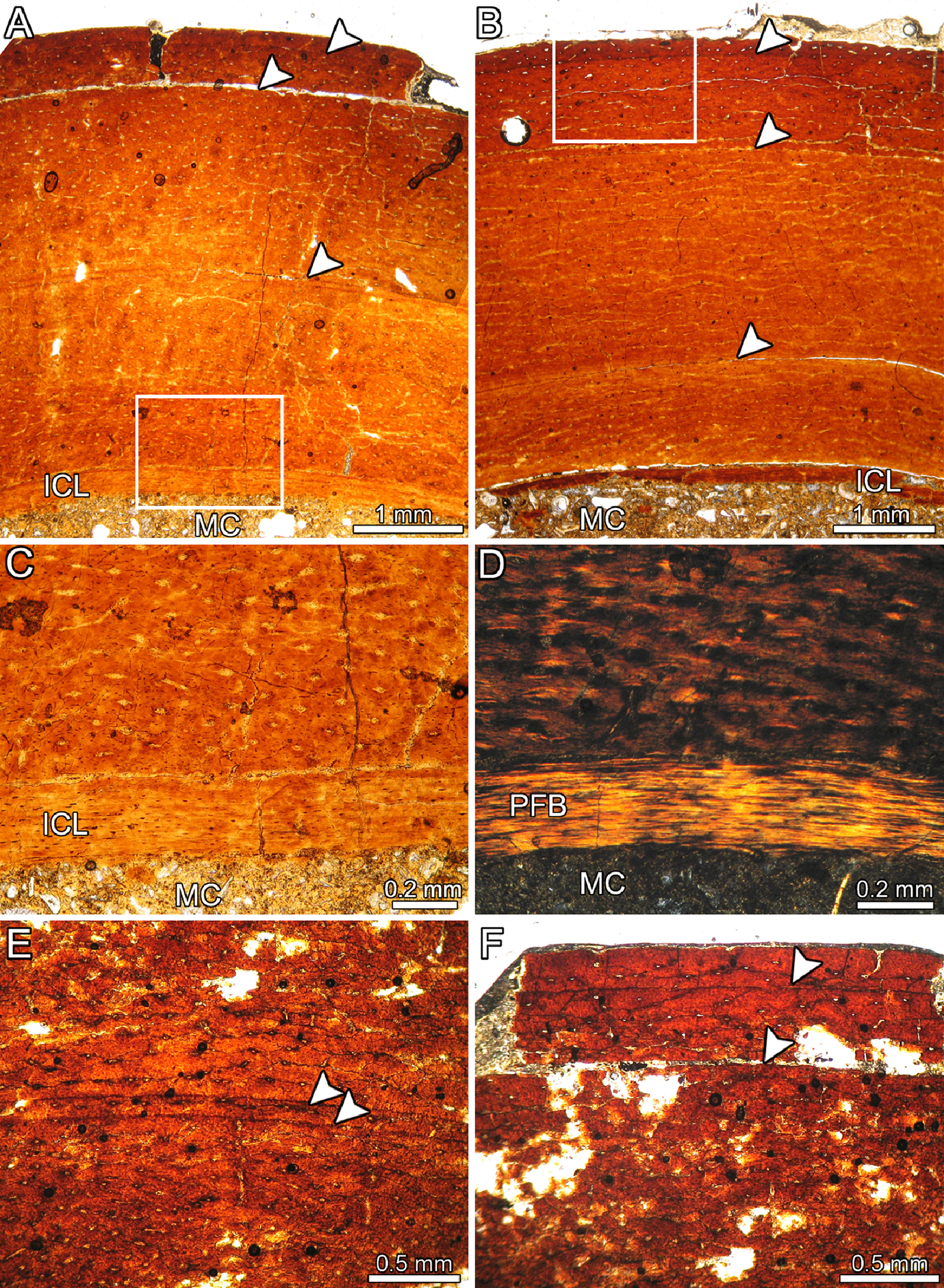 (slightly modified original figure caption) Bone histology of Aniksosaurus darwini (Theropoda: ?Coelurosauria) tibiae from the lower Upper Cretaceous of Patagonia. (A, B) Cyclical growth marks (arrowheads) in the cortical bone tissue of specimens MDT-PV 1/1 (A) and MDT-PV 1/28 (B). (C, D) Close-up of the inner cortex of specimen MDT-PV 1/1 (box inset in A) viewed under normal (C) and polarized (D) light. Compare the soft birefringence in some areas of the primary matrix with the strong birefringence of the ICL. (E) Double LAG (arrowheads) in the cortical tissue of specimen MDT-PV 1/1. (F) Detailed view of the outermost deposited LAGs in specimen MDT-PV 1/1. Except for (D), all figures viewed under normal light. Abbreviations: ICL, inner circumferential layer; MC, marrow cavity; PFB, parallel-fibred bone tissue.